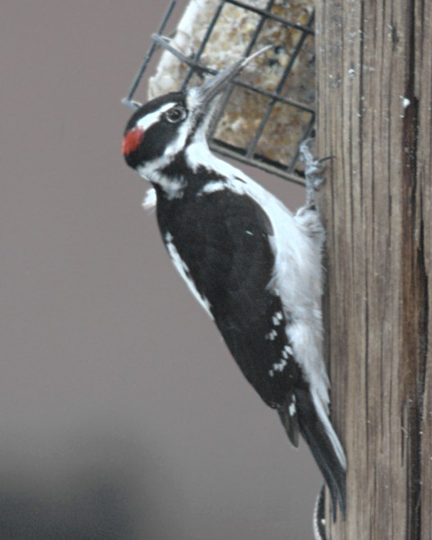 Adult male Hairy Woodpecker of the Rocky Mountain subspecies, Picoides villosus monticola, showing white underparts and less white on wings than eastern birds, also showing tongue. Española, New Mexico. Too bad it's not sharp—as usual, I'm happy to send the original to anyone who wants to improve it.